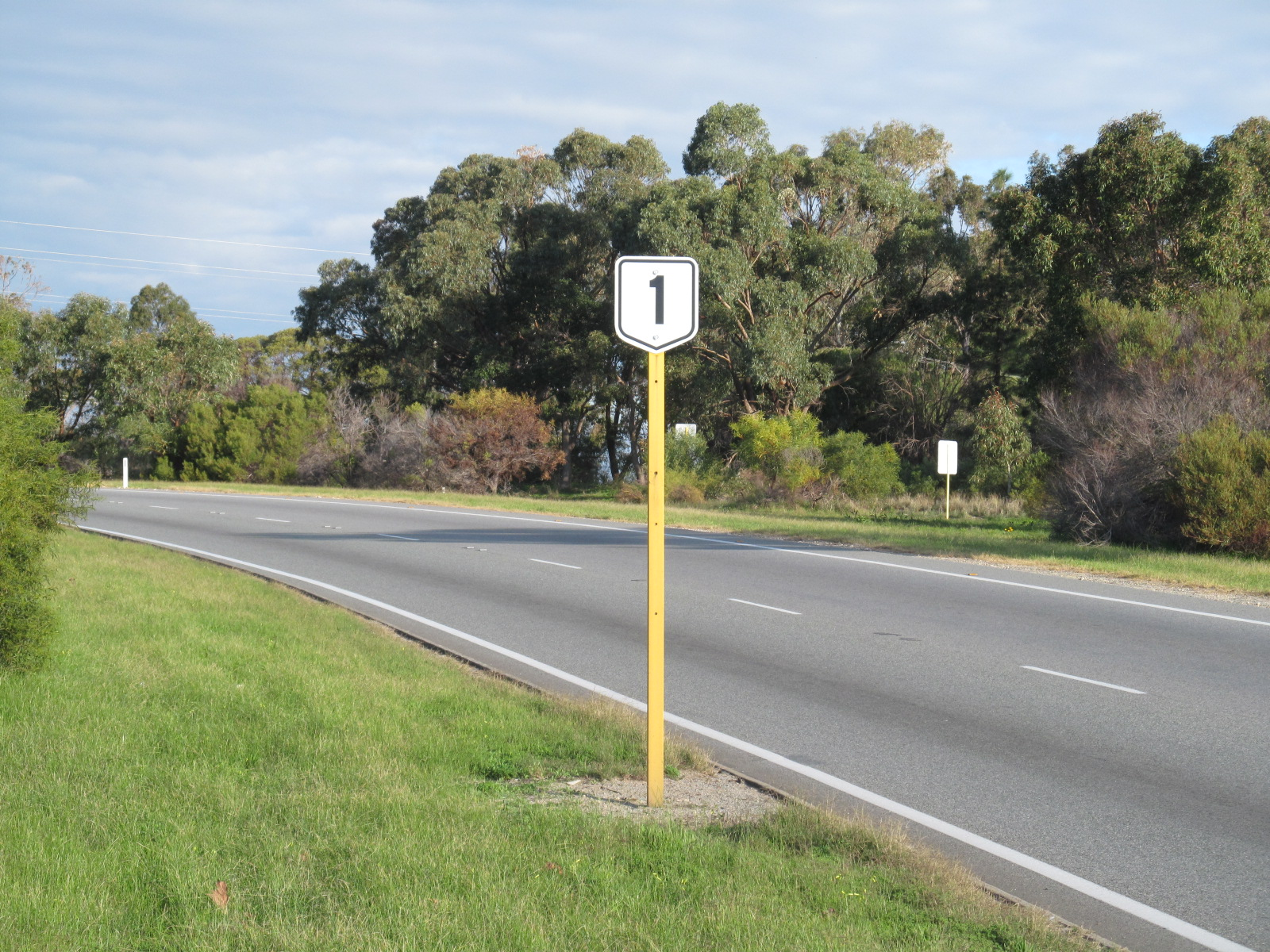 Route 1 sign on Stock Road, south of Winterfold Road, in Coolbellup, Western Australia.